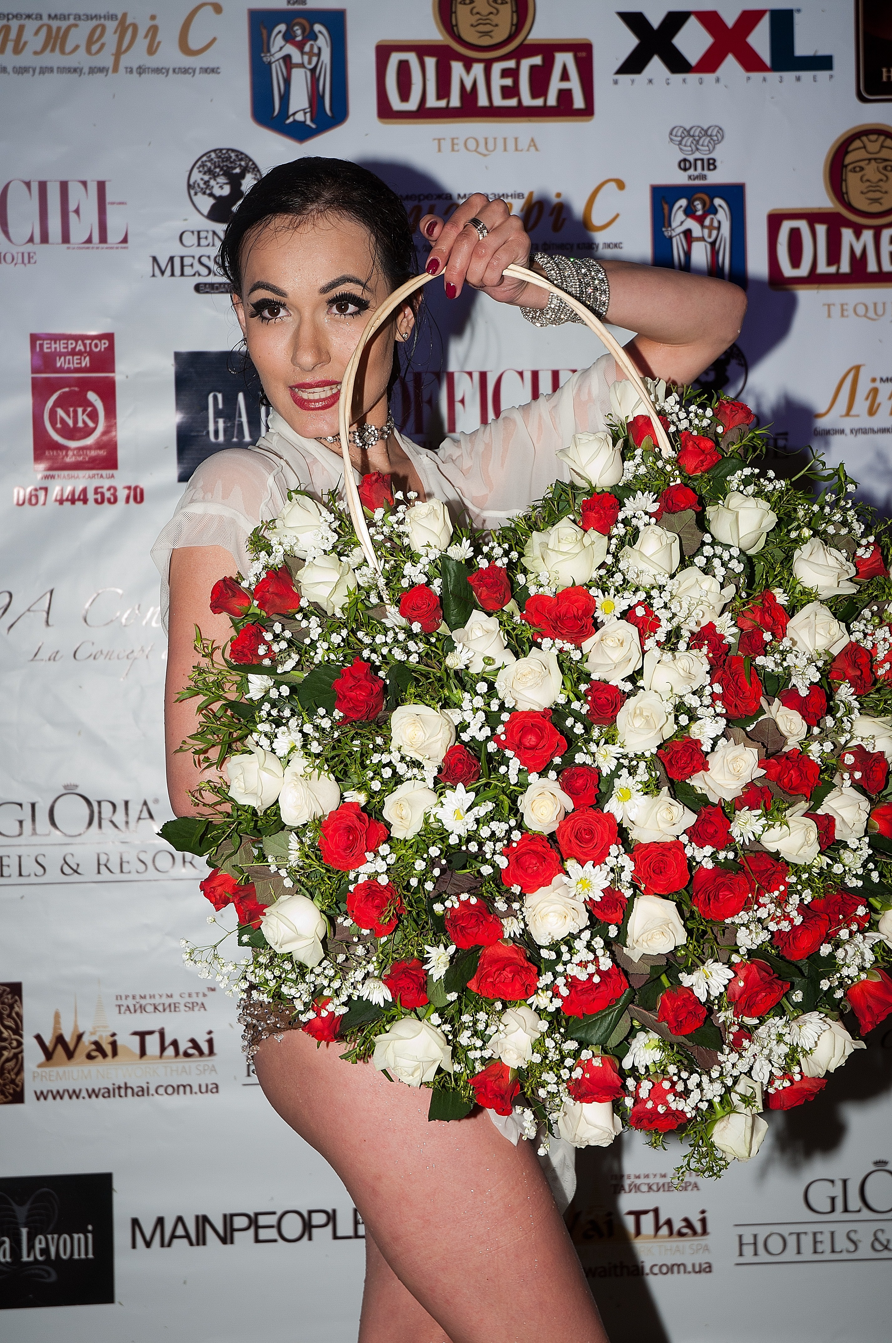 Show girl Nadya Vasina